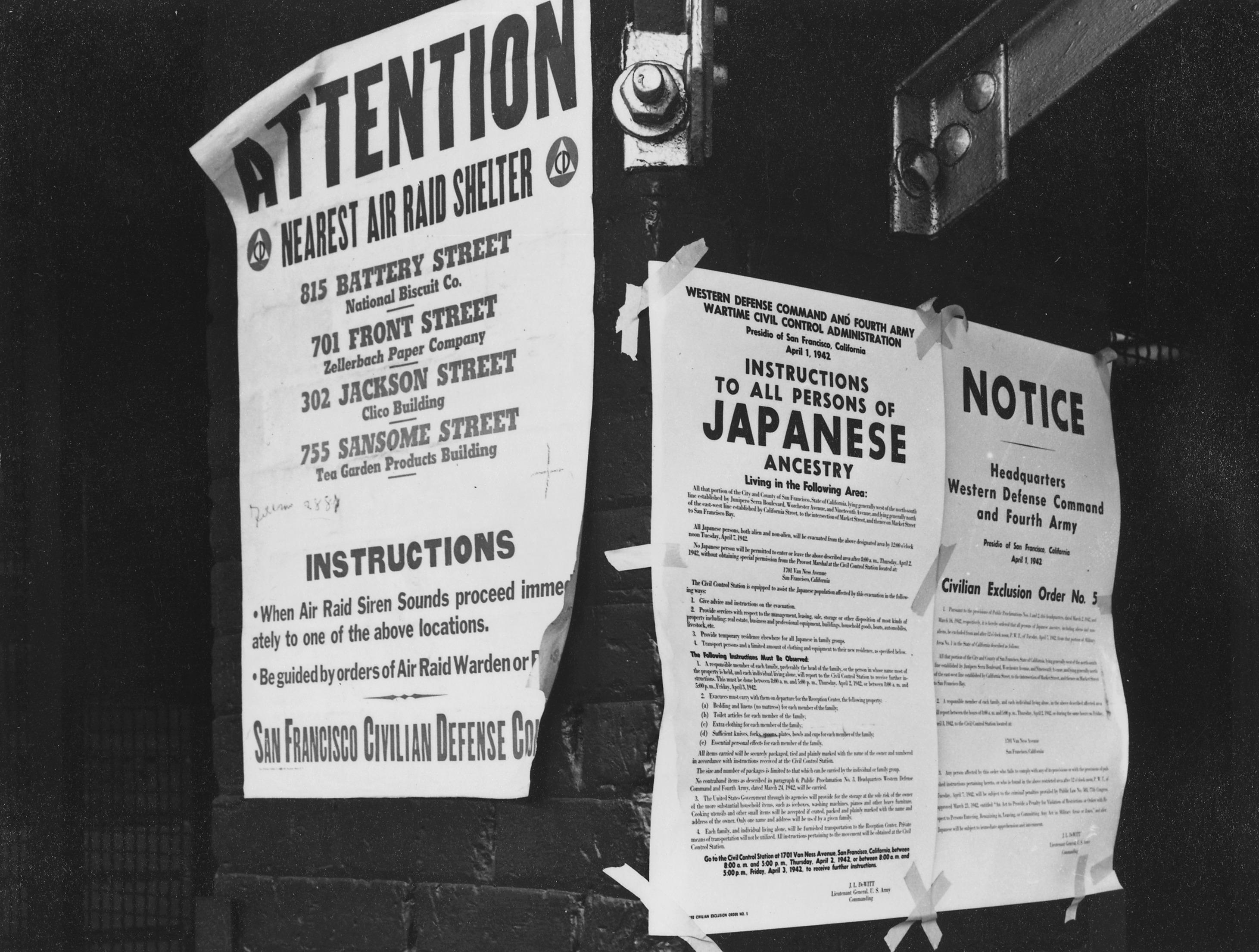 Scope and content: The full caption for this photograph reads: San Francisco, California. On a brick wall beside air raid shelter poster, exclusion orders were posted at First and Front Streets directing removal of persons of Japanese ancestry from first San Francisco section to be affected by evacuation. The order was issued April 1, 1942, by Lieutenant General J.L. DeWitt, and directed evacuation from this section by noon on April 7, 1942.